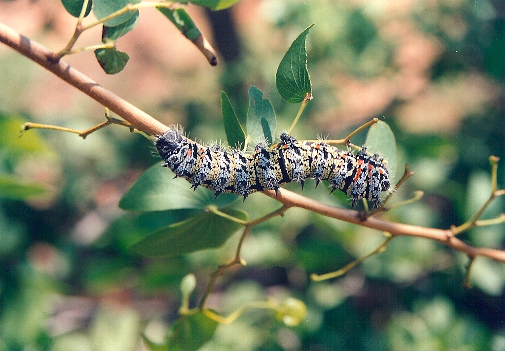 Mopane worm (phane or Gonimbrasia belina) on mopane tree (Colophospermum mopane) in Palapye, Botswana. Phane are actually caterpillars: this one is about 10 cm long and the head is to the right. Taken c.1995 on Fujifilm.